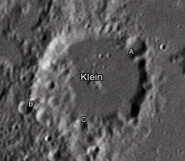 Klein lunar crater as seen from Earth with satellite craters labeled